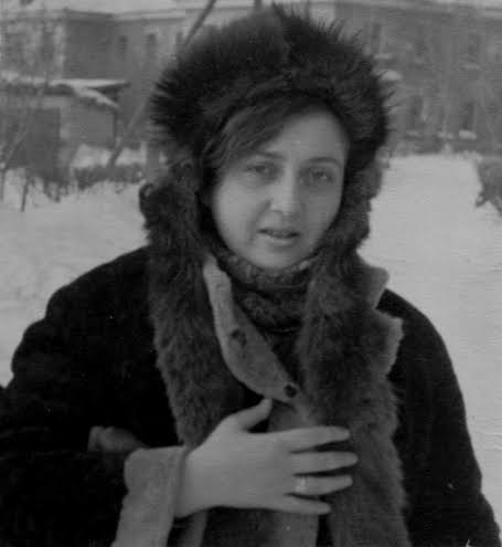 Photo of the Russian poet Regina Derieva in Karaganda, Kazakhstan, 1972